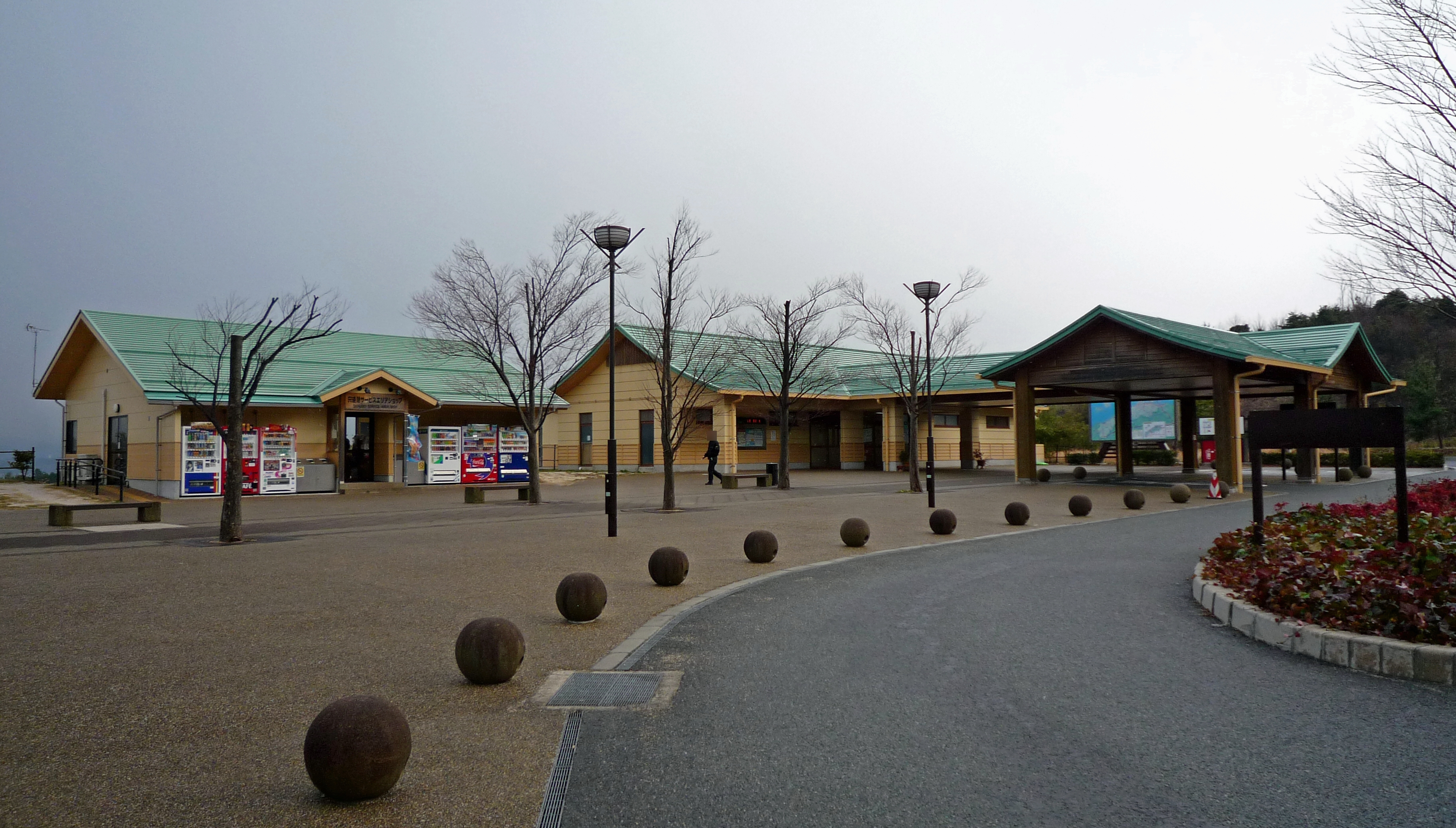 Shinjiko Service Area (Down Line) of San'in Expressway at Matsue City, Shimane Prefecture, Japan.